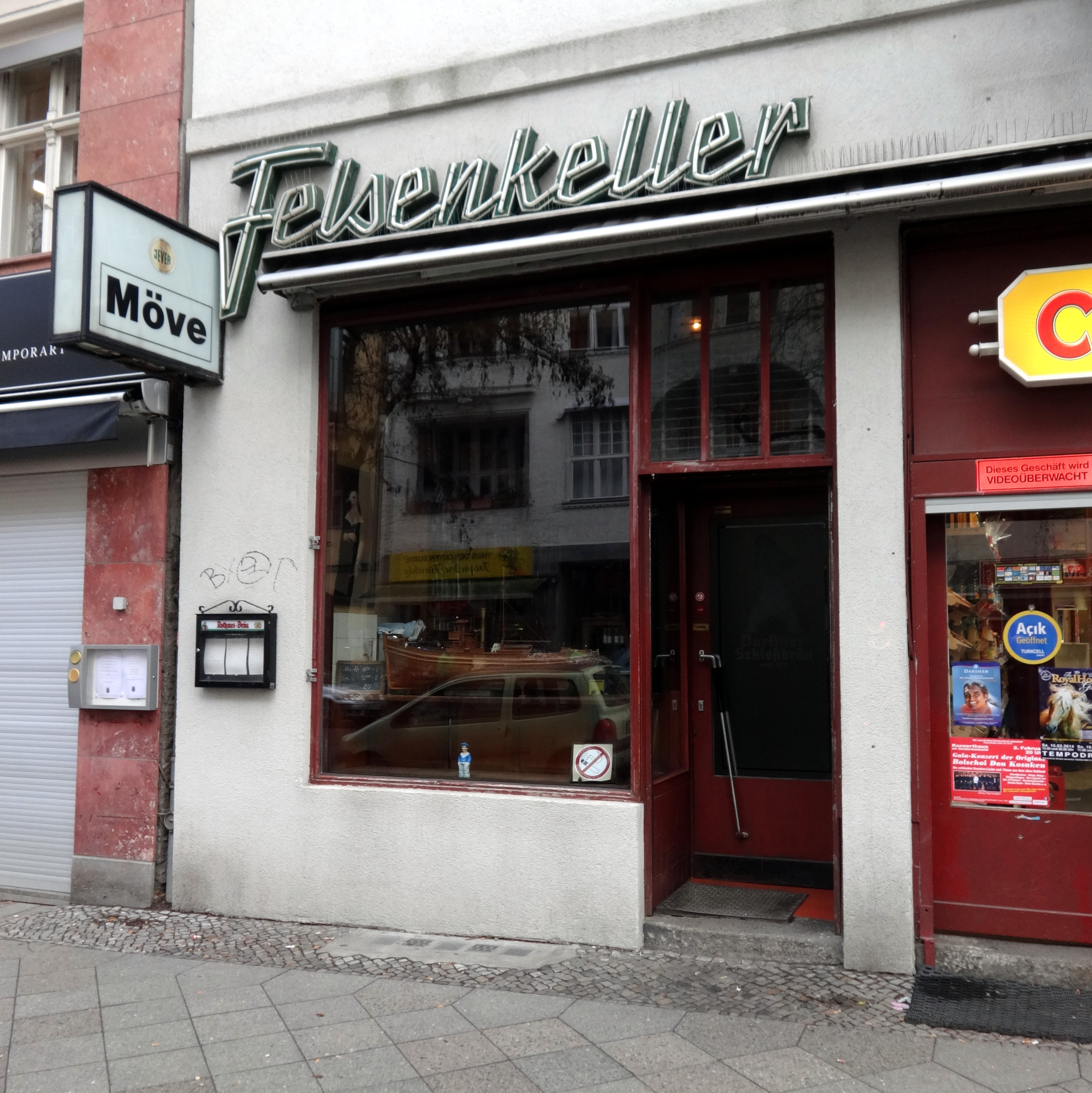 Berlin in Winter